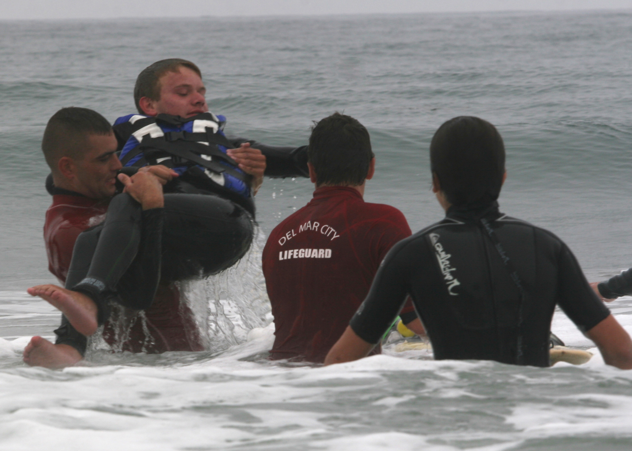 Cpl. Adam Romero, a fiscal clerk for Marine Wing Support Group 37, 3rd Marine Aircraft Wing, lifts Patrick Ivison back onto his surf board after a wipeout Sept. 28. Since returning from deployment, Romero volunteers for Life Rolls On, a non-profit organization which helps disabled children to participate in athletics. (Official U.S. Marine Corps Photo By Cpl. Jessica Aranda) (Released)